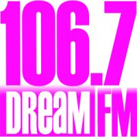 from 106.7 dream fm website (the latest logo)